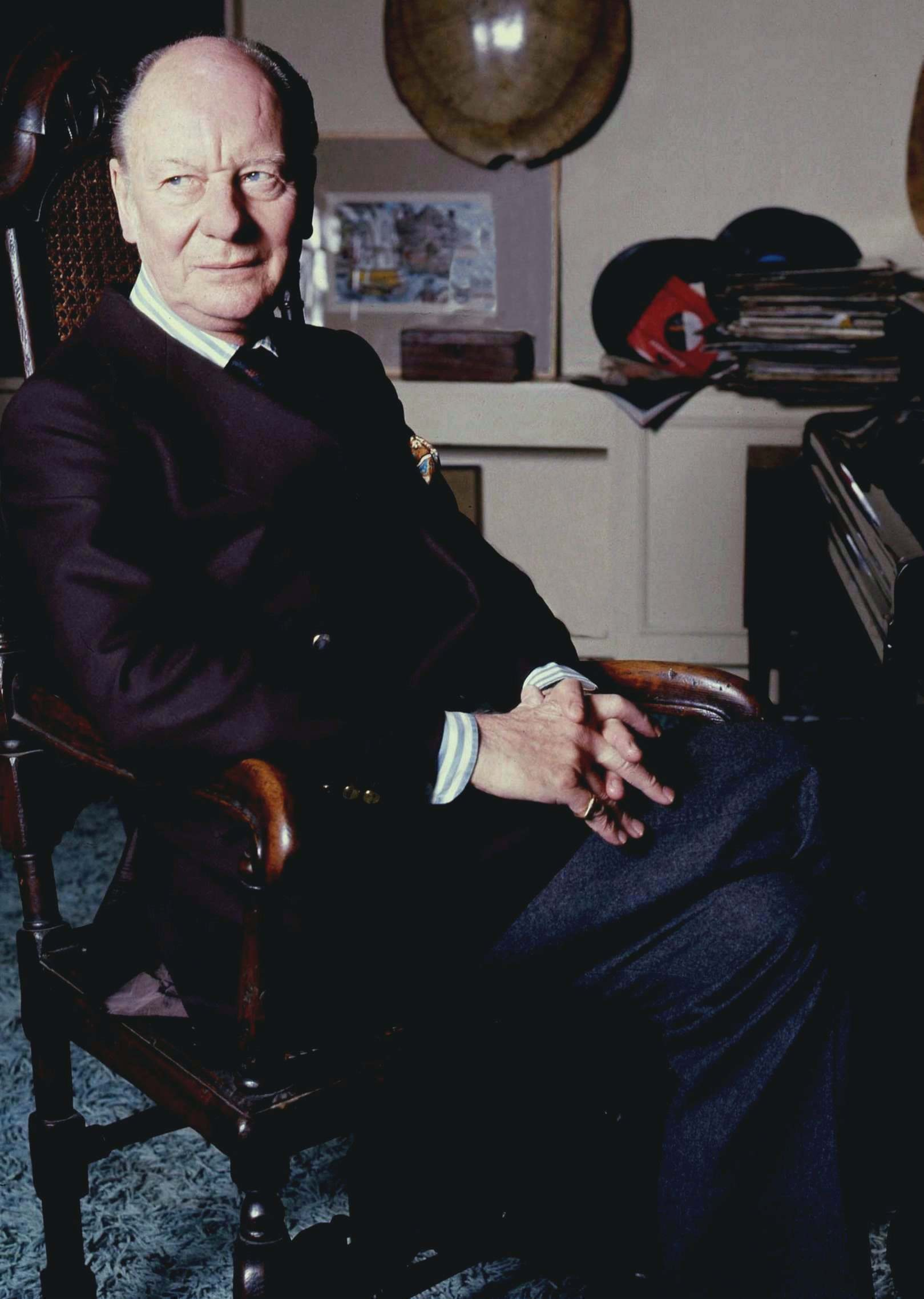 portrait of Sir John Gielgud